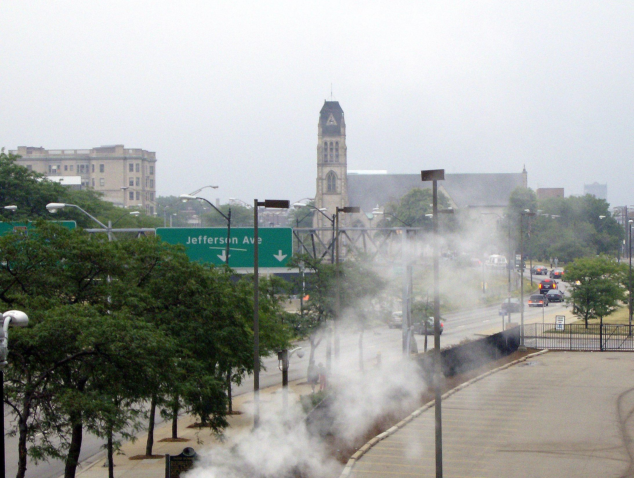 Jefferson Ave Road sign in Detroit, Michigan